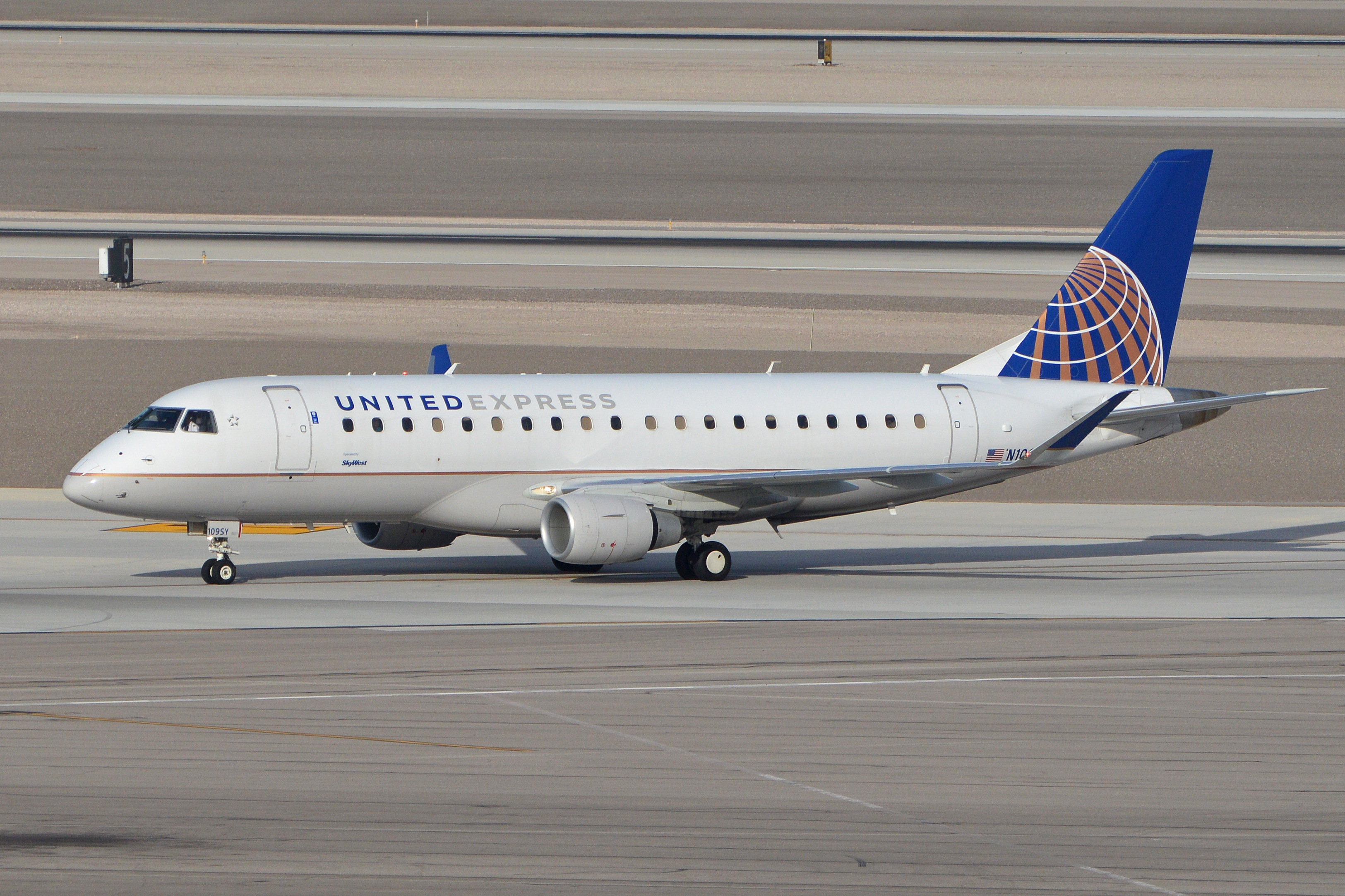 c/n 1700404, l/n 404. Built 2014, operated for United Express by SkyWest. Seen taxiing in after arriving on flight UAL5927 from San Francisco. McCarran International Airport, Las Vegas, NV, USA. 3rd March 2016.